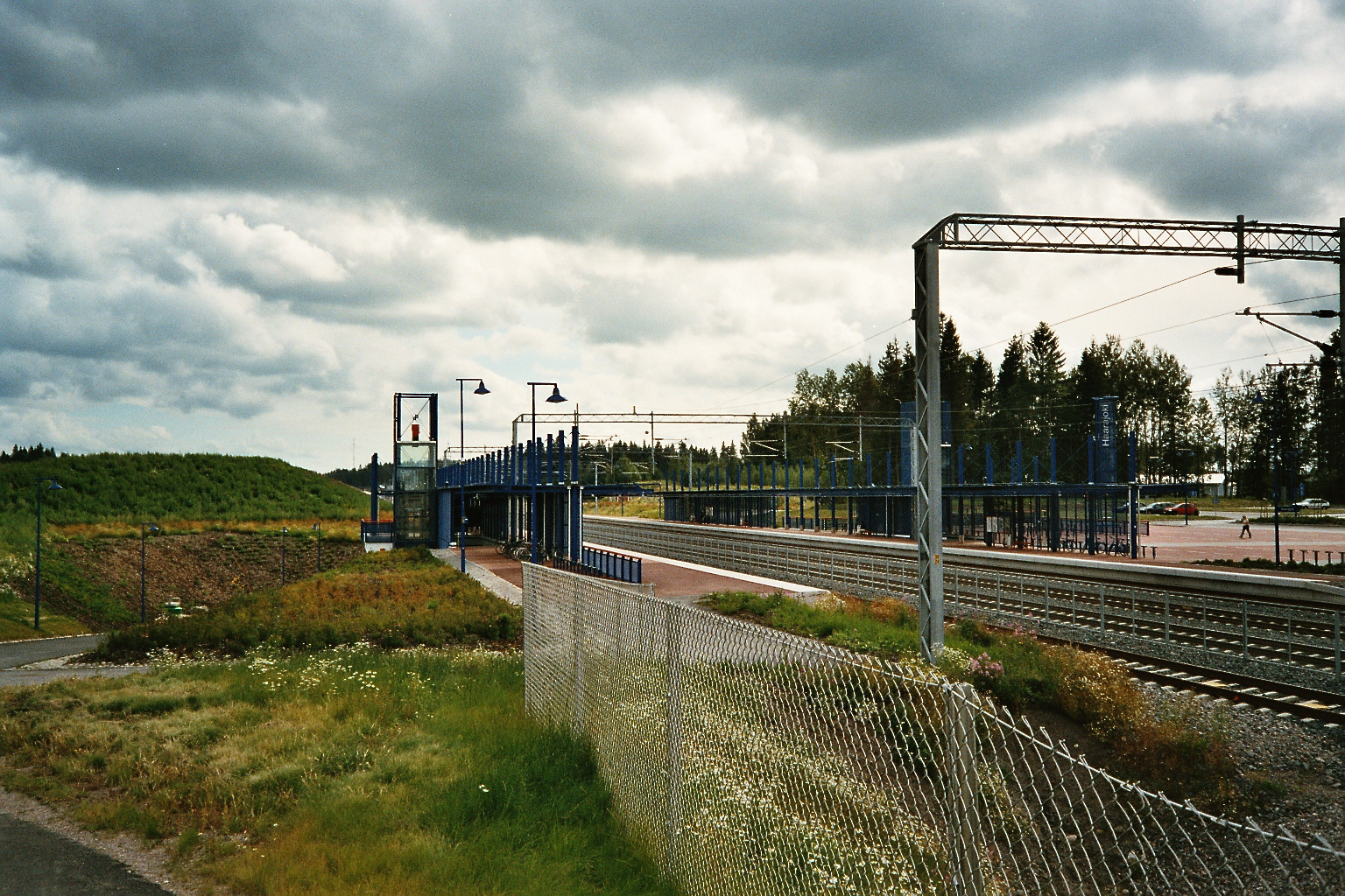 Haarajoki railway station in Järvenpää, Finland